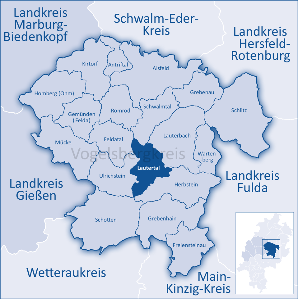 The map shows a district in the area of Vogelsbergkreis